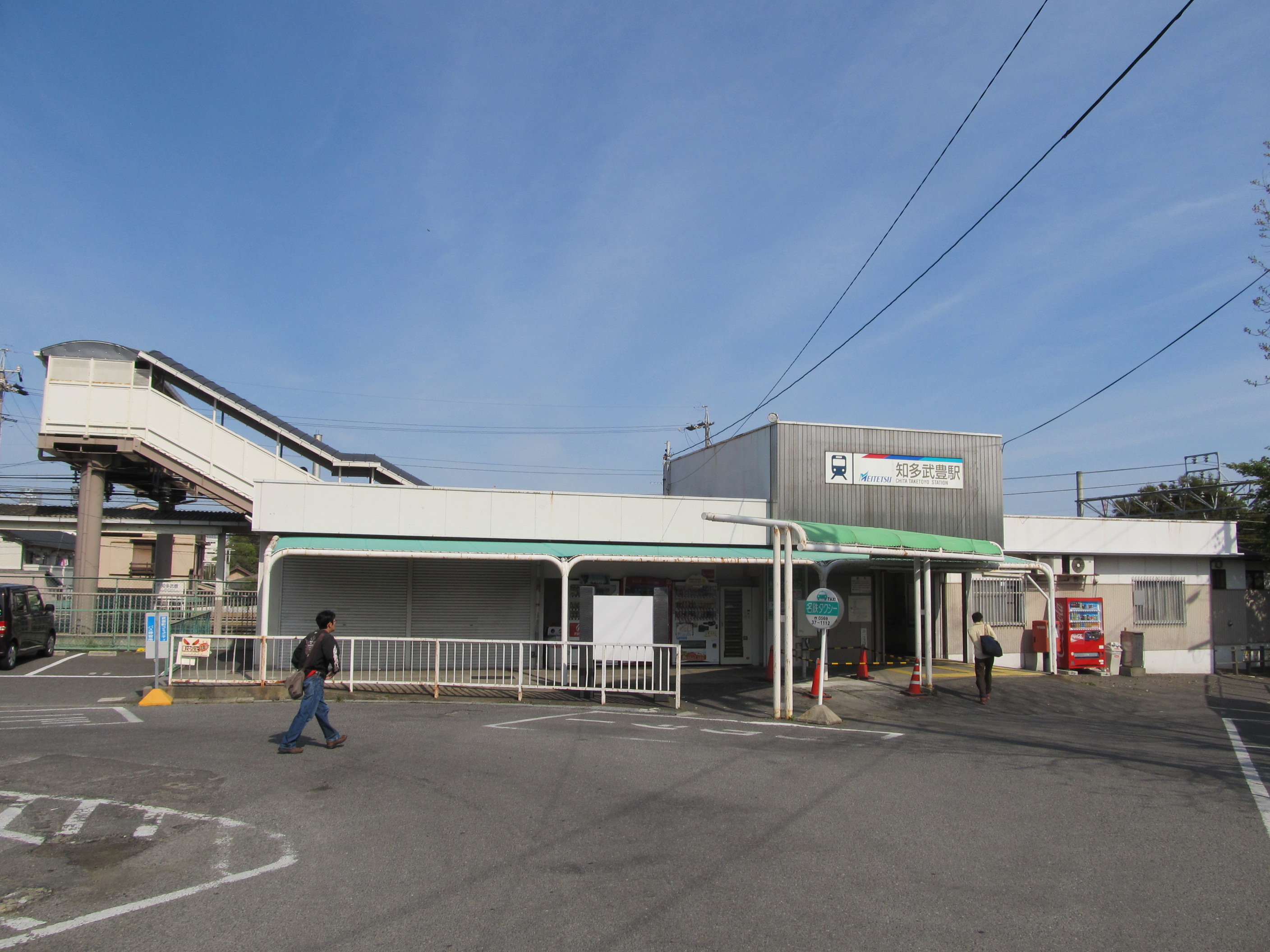 Nagoya Railroad Kōwa Line Chita Taketoyo Station Westgate